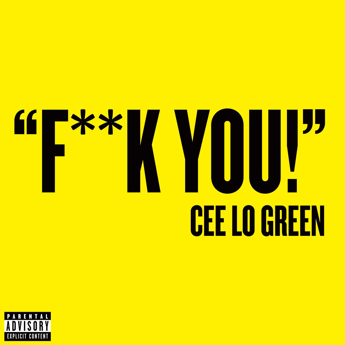 Single sleeve of "F**k You!" by Cee Lo Green